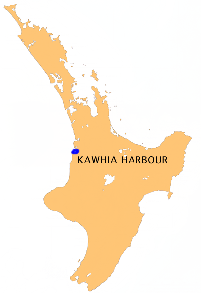 Location map for Kawhia Harbour, New Zealand